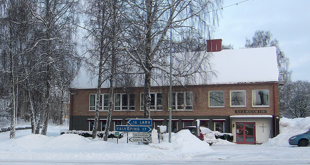 The church hall or parish house of Floby, Falköping Municipality, Västra Götaland County, Sweden.